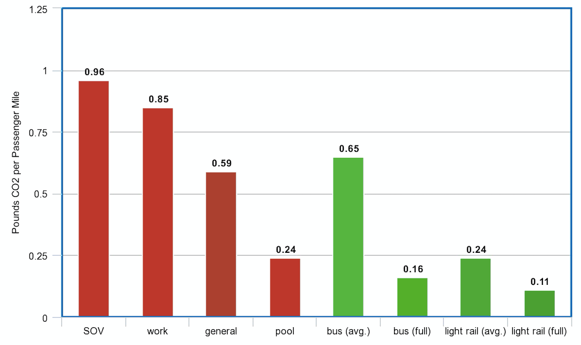 Per passenger GHG emissions of transportation options